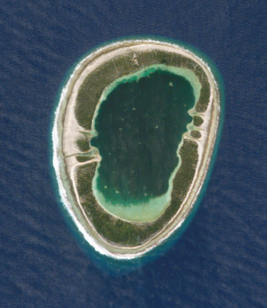 NASA astronaut image of Vanavana Atoll (Tuamotu Archipelago, French Polynesia) in the Pacific Ocean